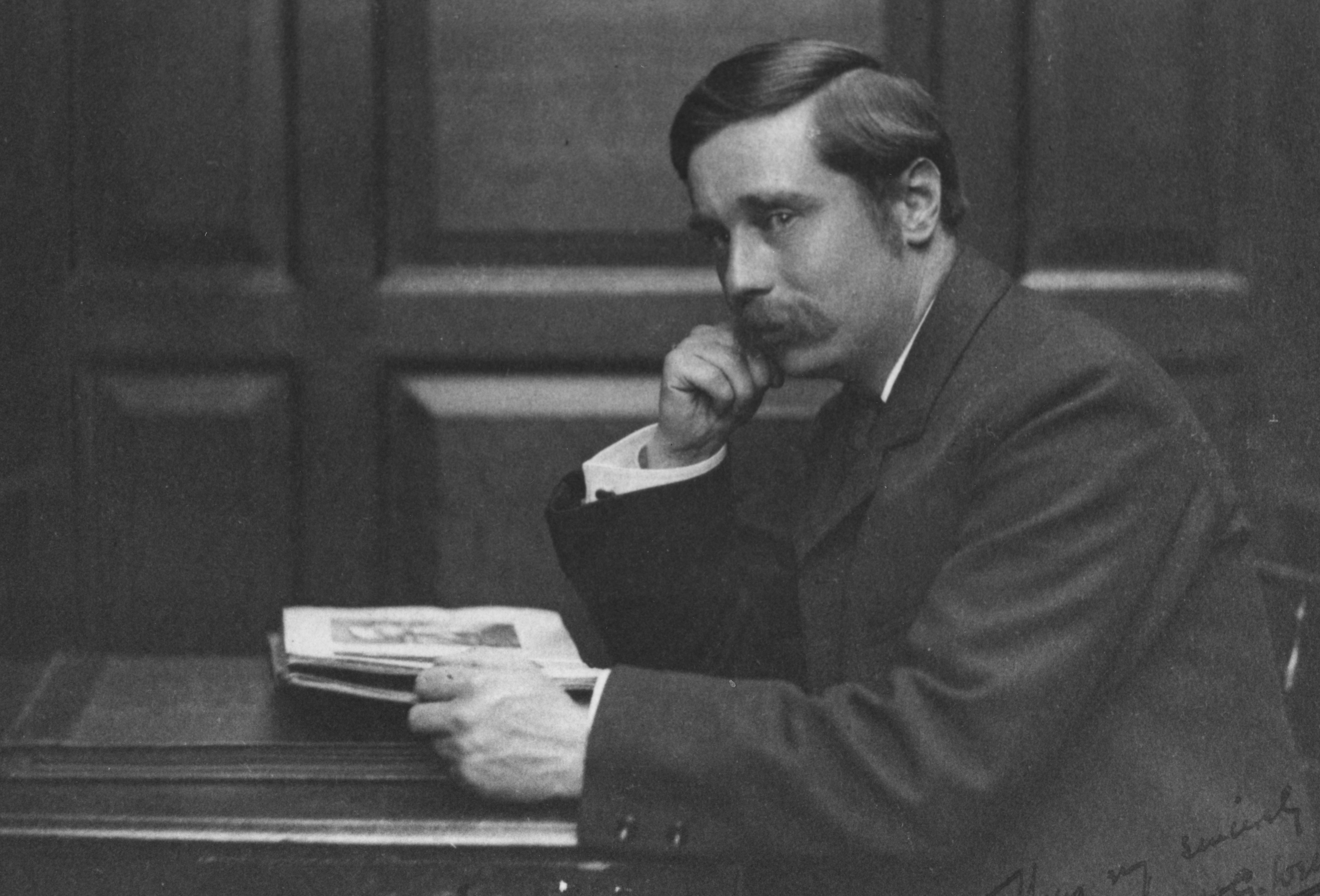 Picture taken by Frederick Hollyer IMAGELIBRARY/120 Persistent URL